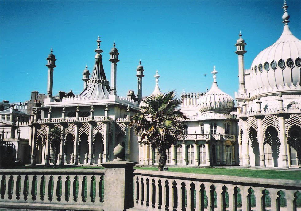 Royal Pavilion in Brighton (photograph is scanned)